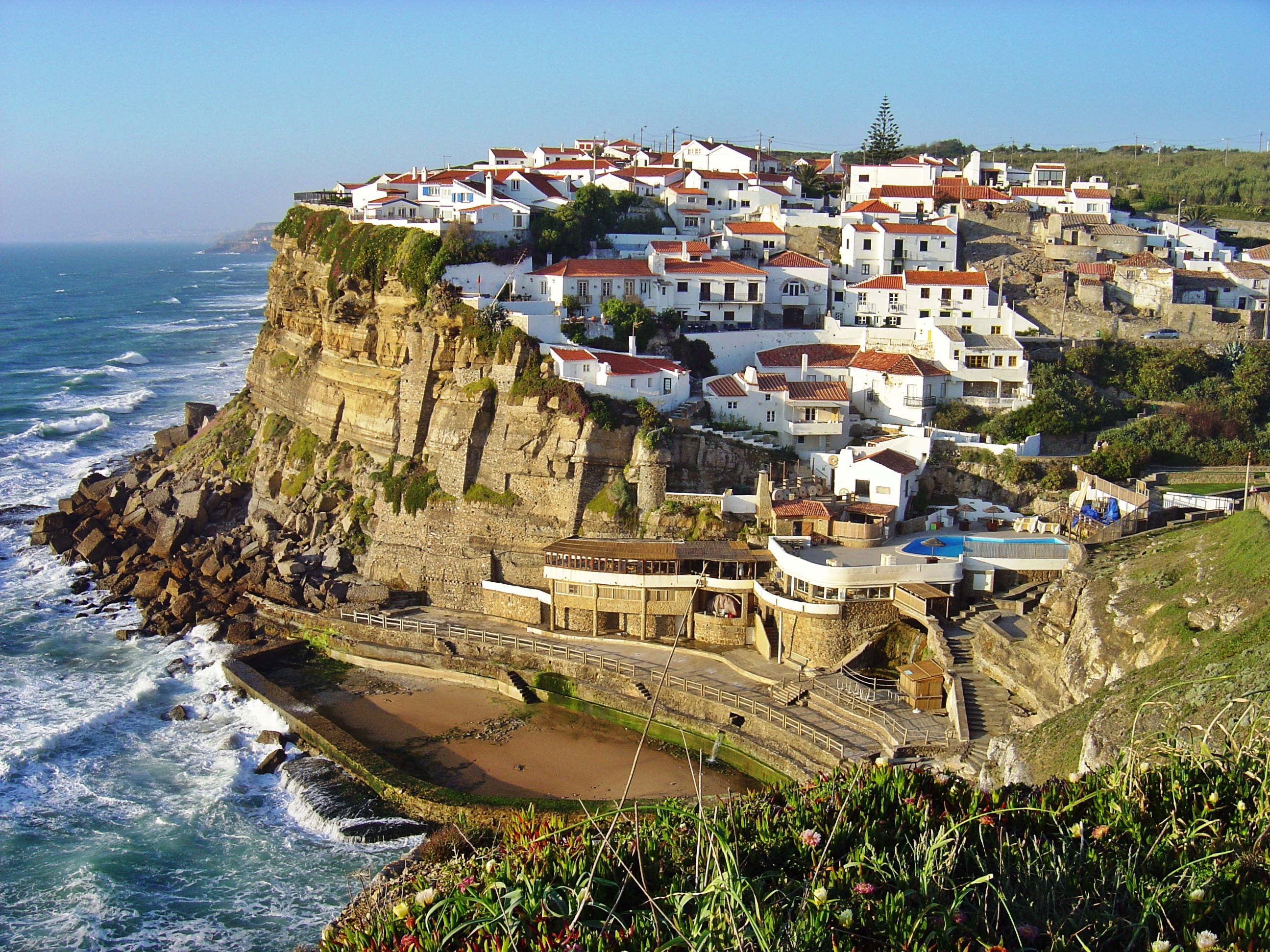 Azenhas do Mar is a seaside town in the municipality of Sintra, Portugal. Picture taken by User:Husond in May 2007.